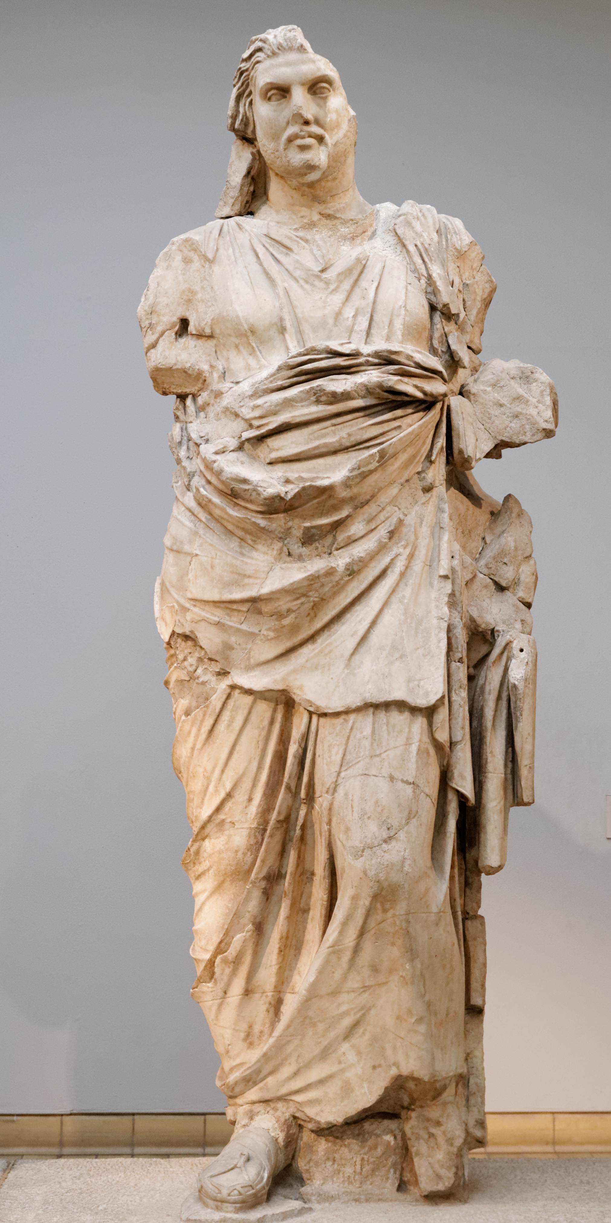 Colossal statue of a man, traditionnally identified with Maussollos, king of Caria. From the north side of the Mausoleum of Halikarnassos (modern Bordum, Turkey).